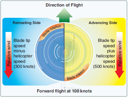 Effect of blade airspeed on lift on advancing and retreating side. Caption: The blade tip speed of this helicopter is approximately 400 knots. If the helicopter is moving forward at 100 knots, the relative windspeed on the advancing side is 400 knots. On the retreating side, it is only 200 knots. This difference in speed causes a dissymmetry of lift.